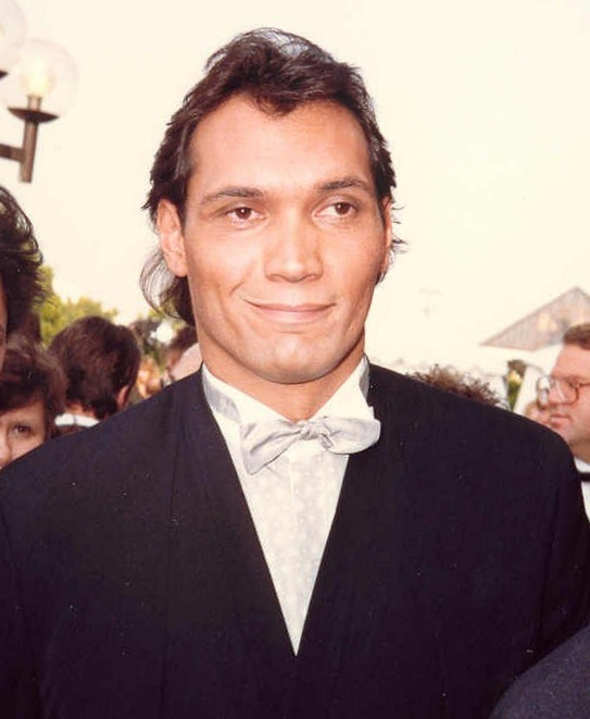 Jimmy Smits on the red carpet at the 39th Annual Emmy Awards 20 September 2007